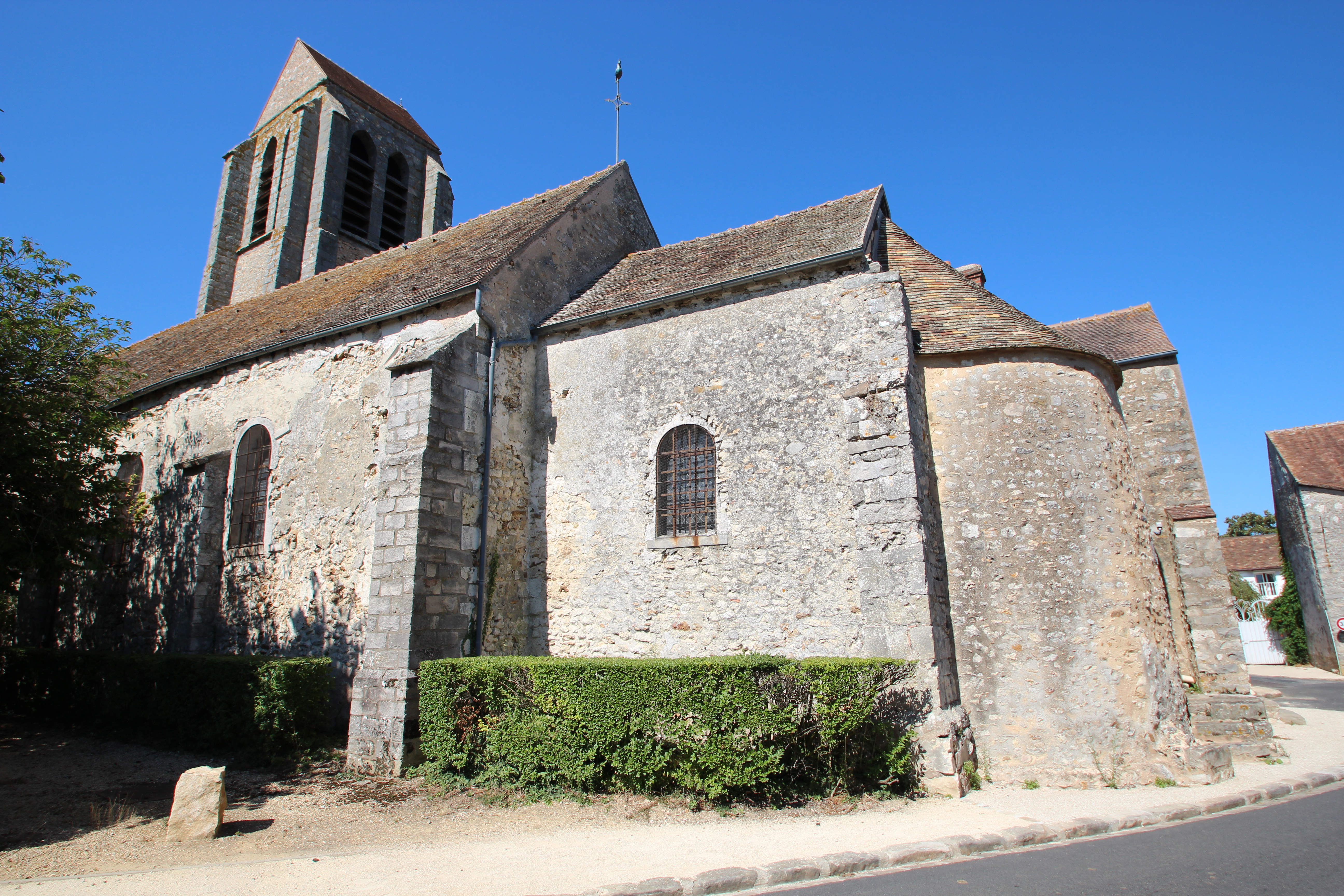 Notre-Dame church of Torfou, Essonne, France.